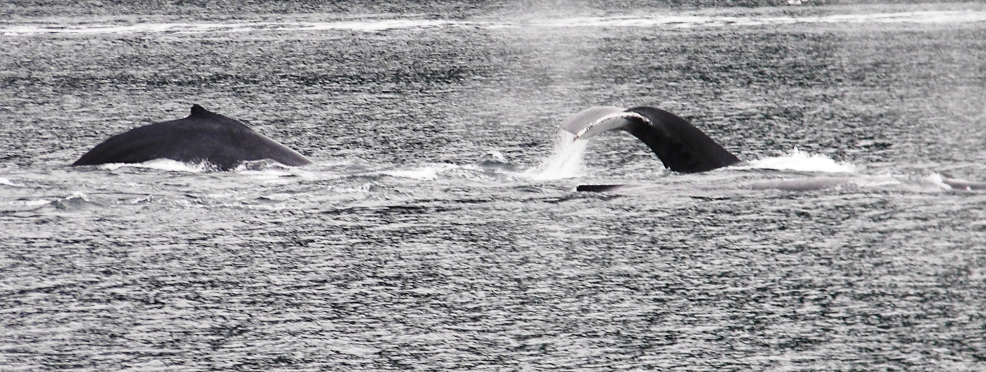 Two humpback whales diving in North Pass between Lincoln Island and Shelter Island in the Lynn Canal north of Juneau, Alaska. These whales were part of a group of 15 that were bubble net fishing on 18 August 2007.